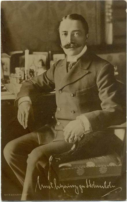 Ernst II, Prince of Hohenlohe-Langenburg